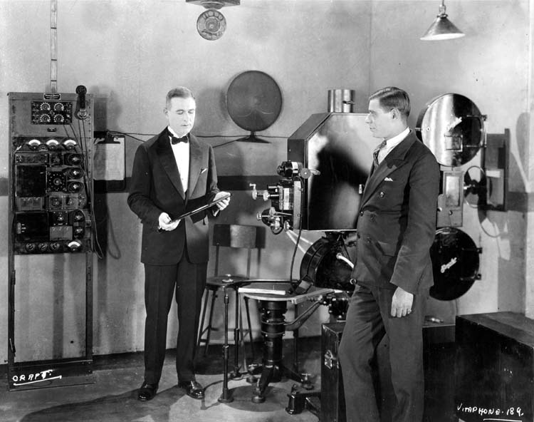 Reproduction of 1926 photograph of Western Electric engineer E. B. Craft (on the left) demonstrating Vitaphone sound film system.